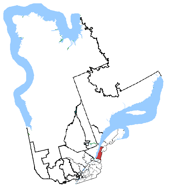 Map of Rimouski-Neigette—Témiscouata—Les Basques